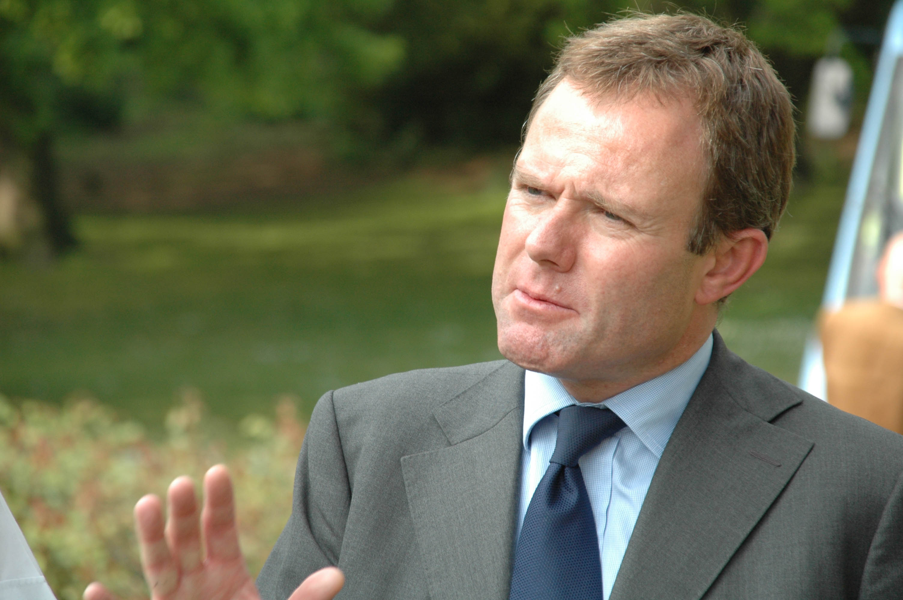 Nick Herbert MP